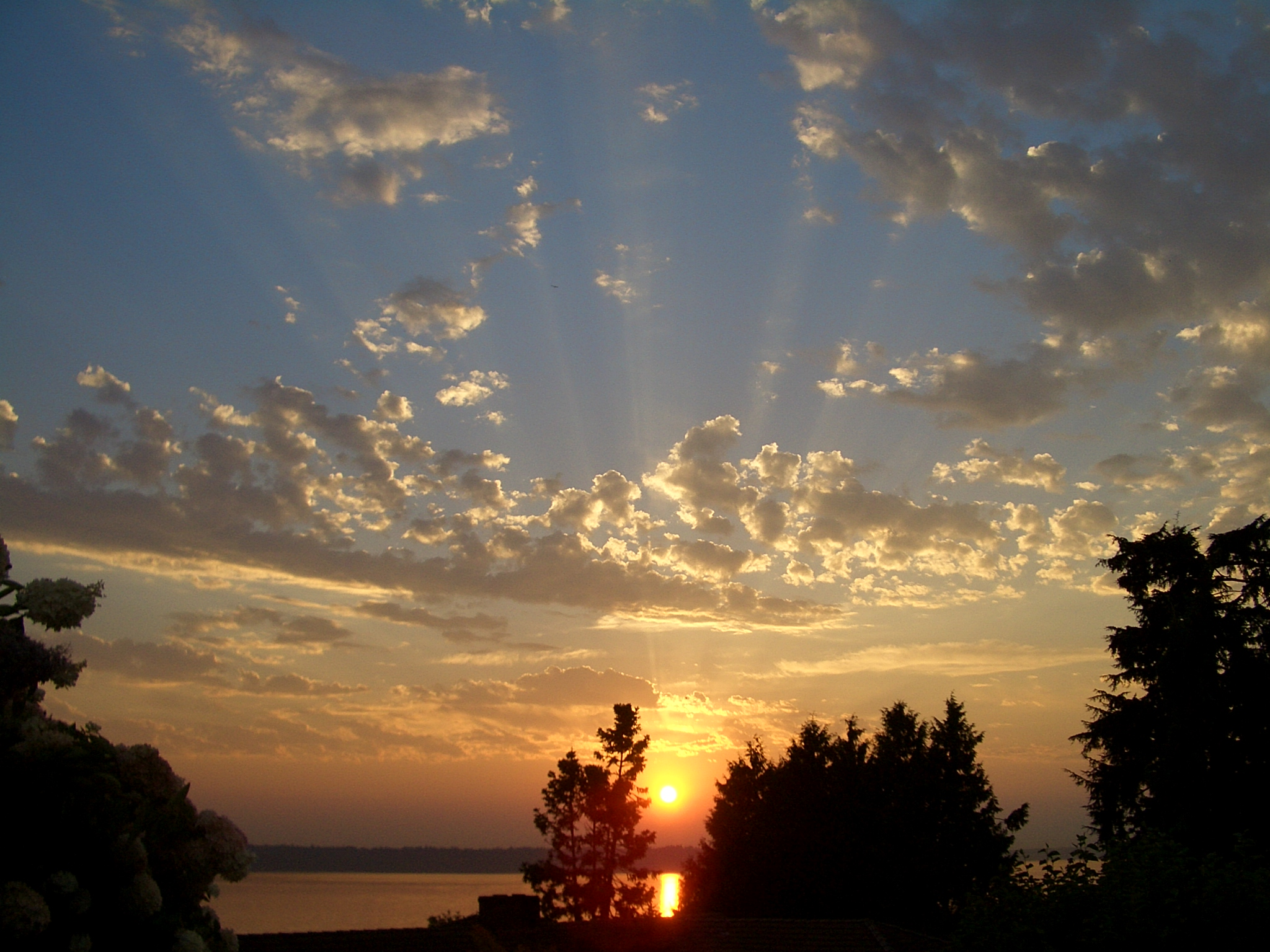 Sunset over Puget Sound, southwest of Seattle, WA.